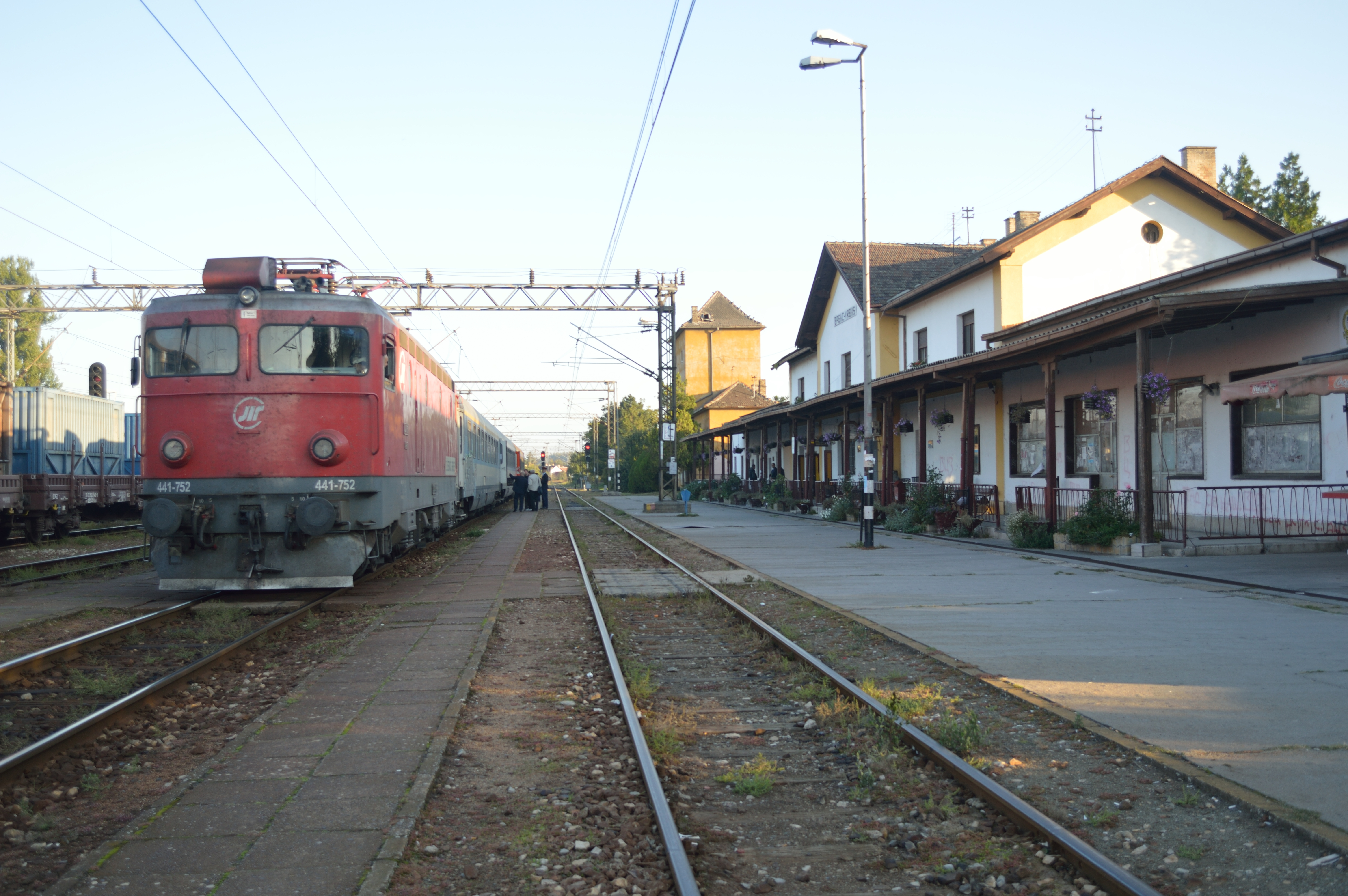 Balkans Rail Trip, Autumn 2013 - Day Three InterCity rail travel Serbian style! 441.752 is seen at at Vrbas already 20 minutes late after just 66kms on its 4 hour journey, IC541 05:45 Subotica to Beograd on 25 September 2013. These trains attract an additional fare with compulsory reservation and slightly better stock than most services. However, they fall well below standards of similar graded services in other countries. Note for the map checkers: The place name is shown as Titov Vrbas and unfortunately can't be changed. The "Titov" name in this case applied in 1983, some three years after the death of Yugoslavian president Josip Broz Tito. The town reverted back to just Vrbas in 1992. Other towns, generally one in each region also received a "Titov" prefix and Podgorica, now the capital of Montenegro was renamed Titograd. Some of these namings took place after World War 2. The last town to have "Titov" removed was Titov Veles in Macedonia in 1996.